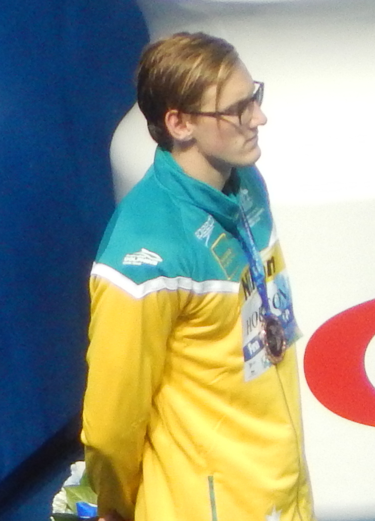 Medallists at the men's 800 metres freestyle in Kazan 2015